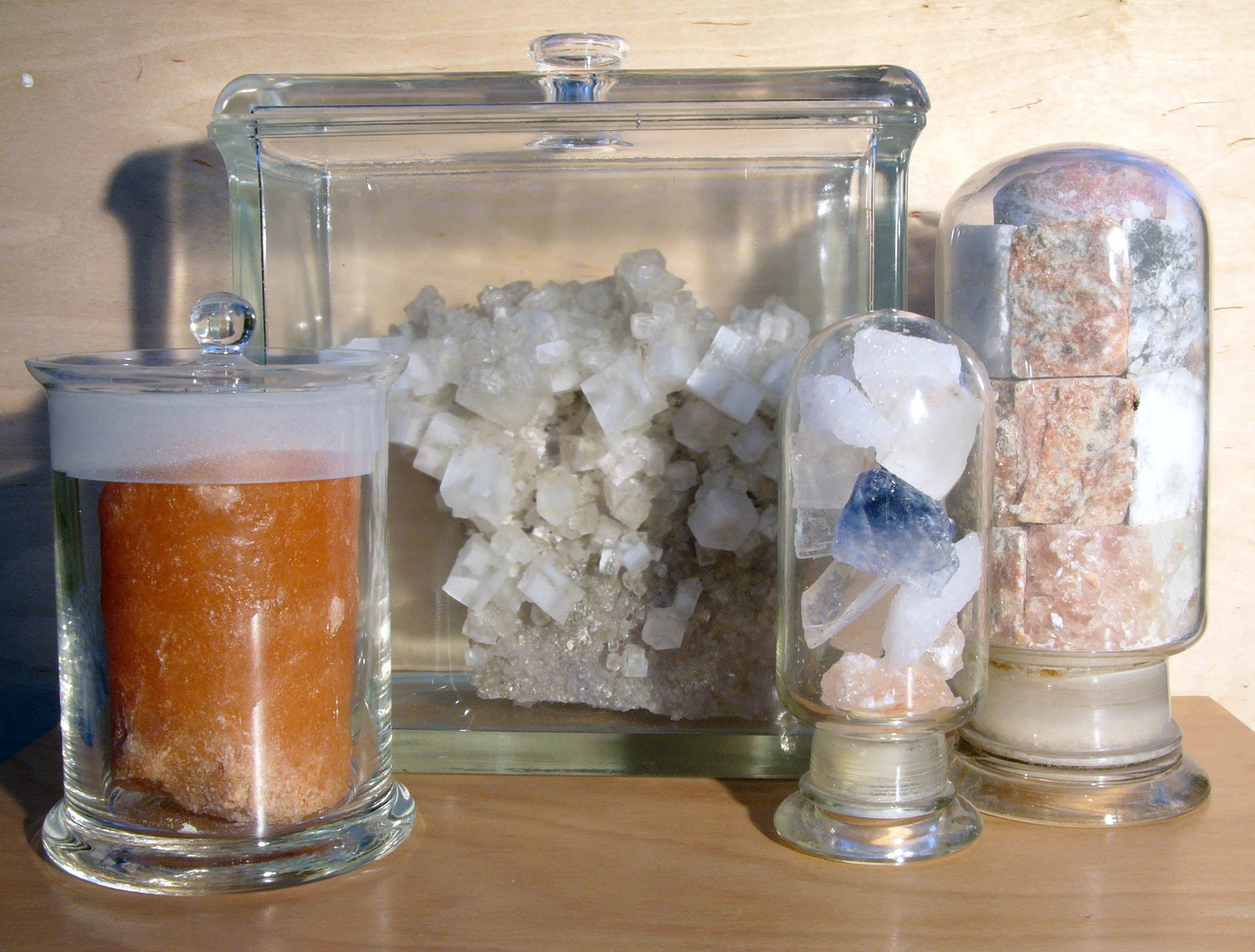 Different minerals of salt from German salt mines